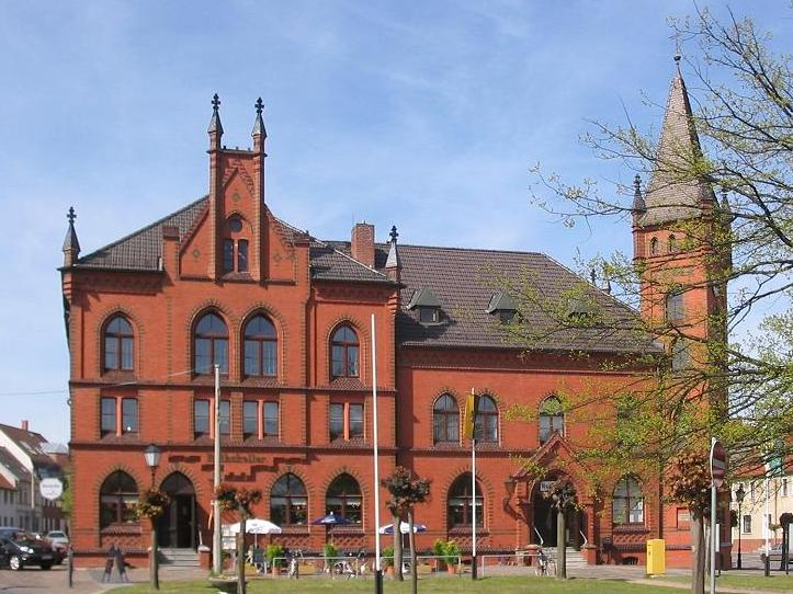 Town hall in Zahna, built in 1897. The town Zahna, district Wittenberg, state Saxony-Anhalt, Germany, is situated in the Nature park Fläming.